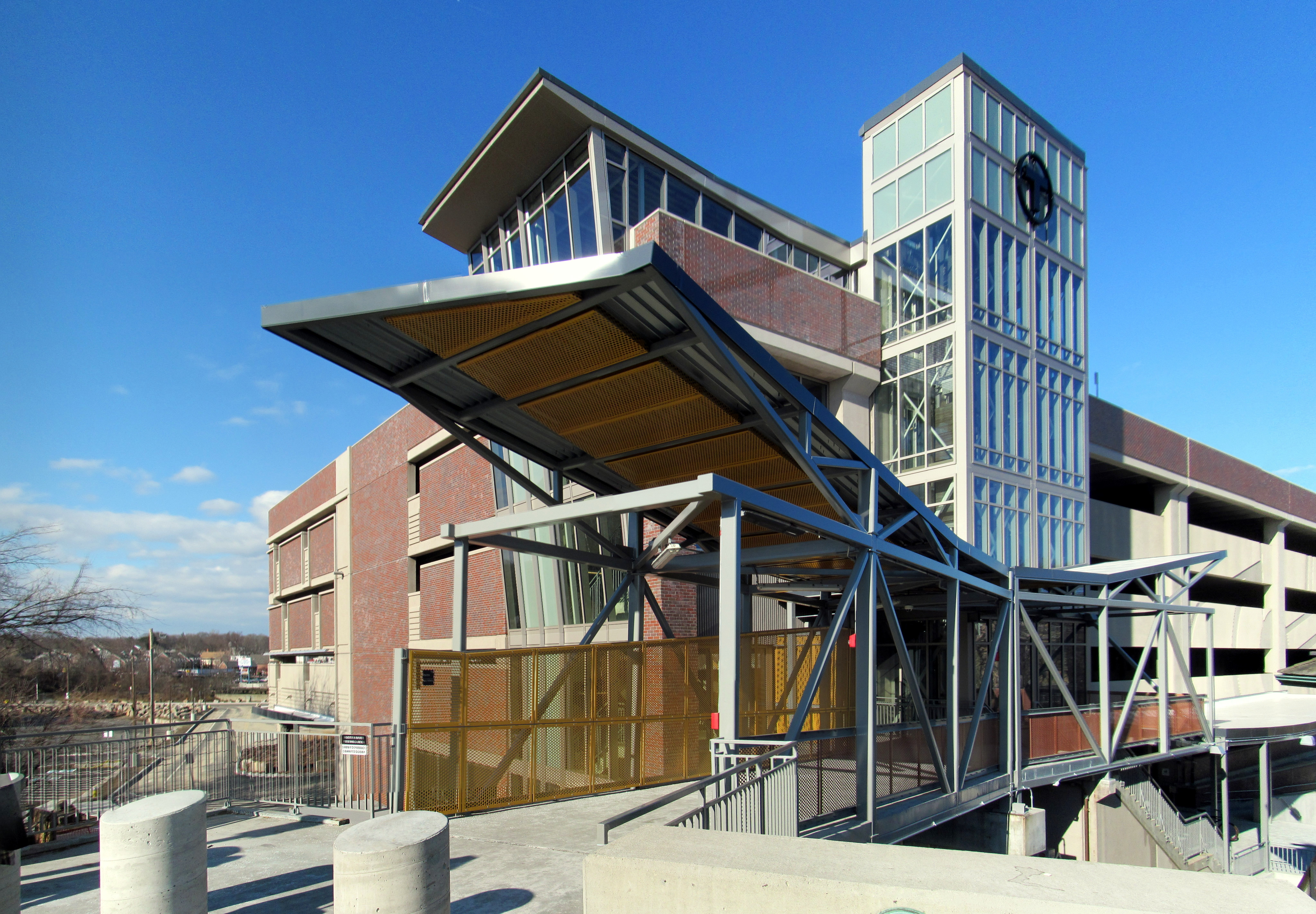 The main entrance to Salem station from Bridge Street in January 2016